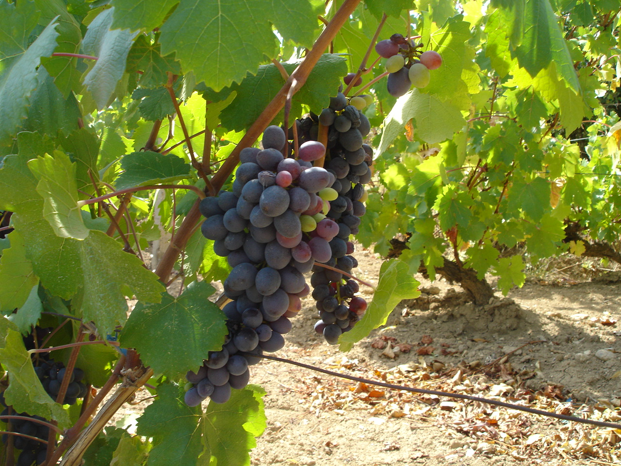 Red (black) grapes in vineyard near Usje, Macedonia